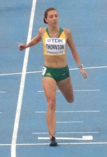 2016 IAAF World U20 Championships in Bydgoszcz, 400m women semi-final